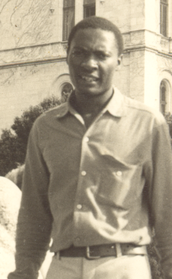 Eno Belinga in Trieste, Italy, 1967